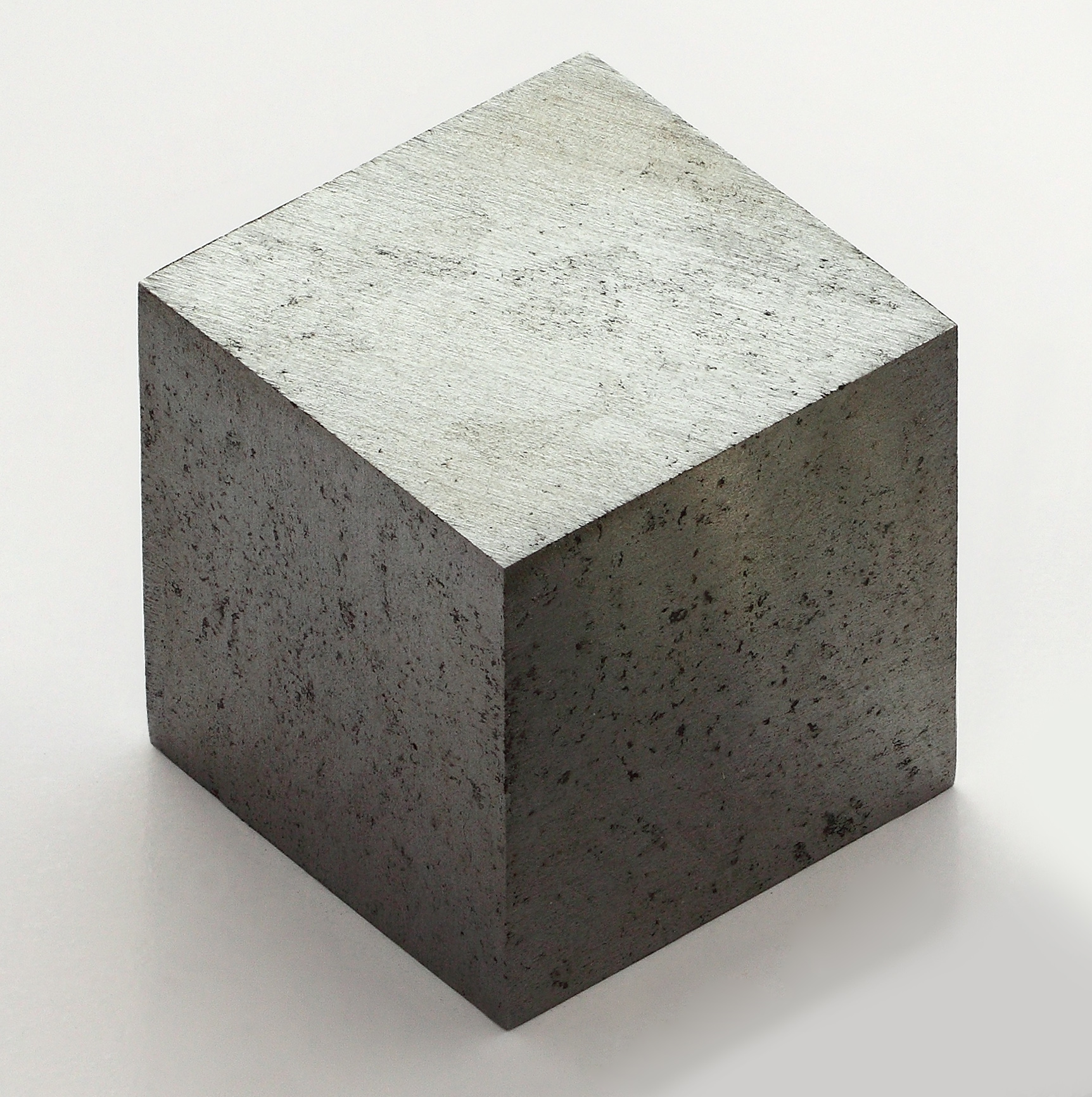 Lutetium, an argon arc remelted 1 cm3 lutetium (99,9 %) cube.